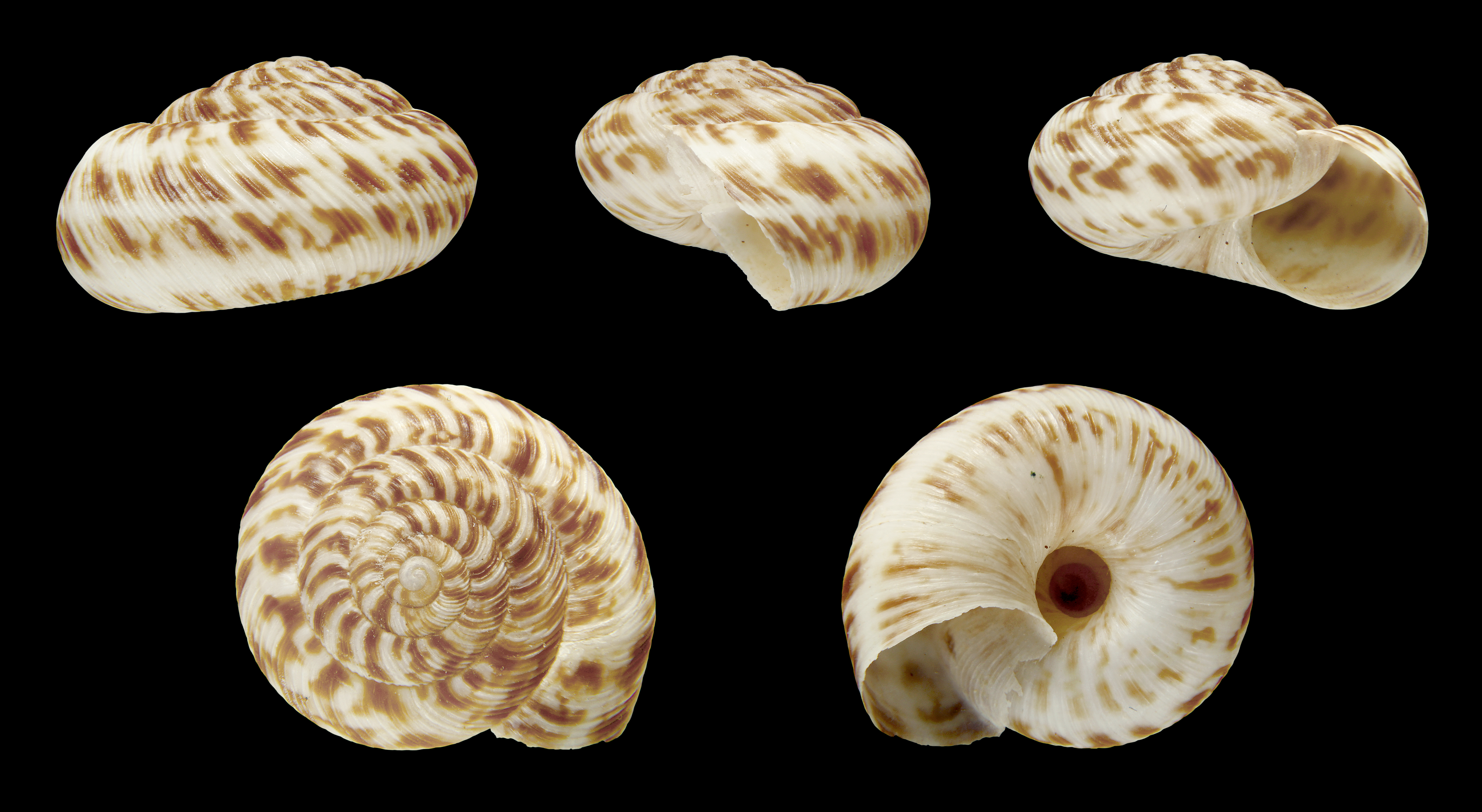 Diameter 1.7 cm; Originating from Porter, Michigan, USA; Shell of own collection, therefore not geocoded.